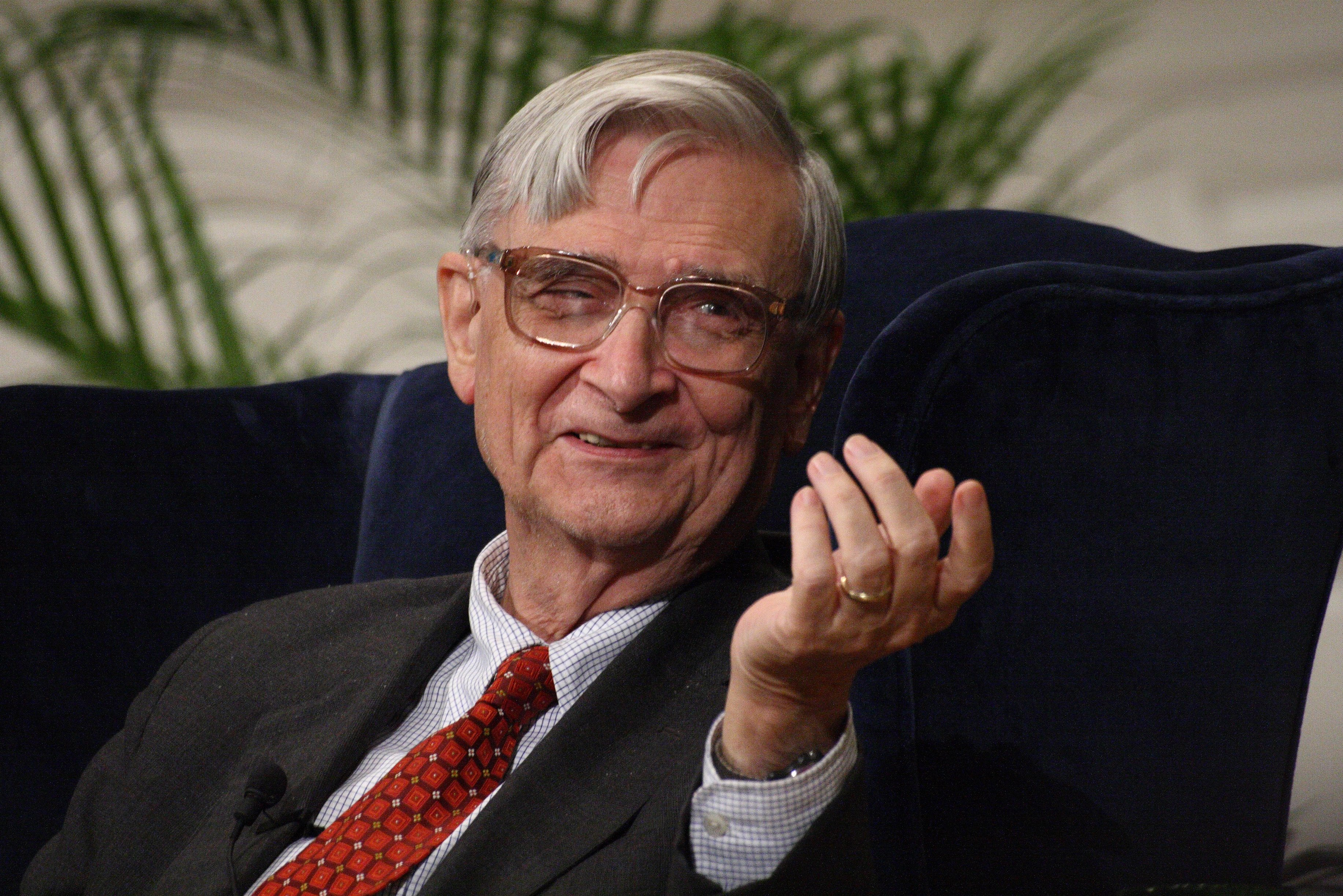 Biologist and conservationist Edward O. Wilson at "fireside chat" at Yale University, at which he was awarded the Addison Emery Verrill Medal from the Peabody Museum of Natural History.